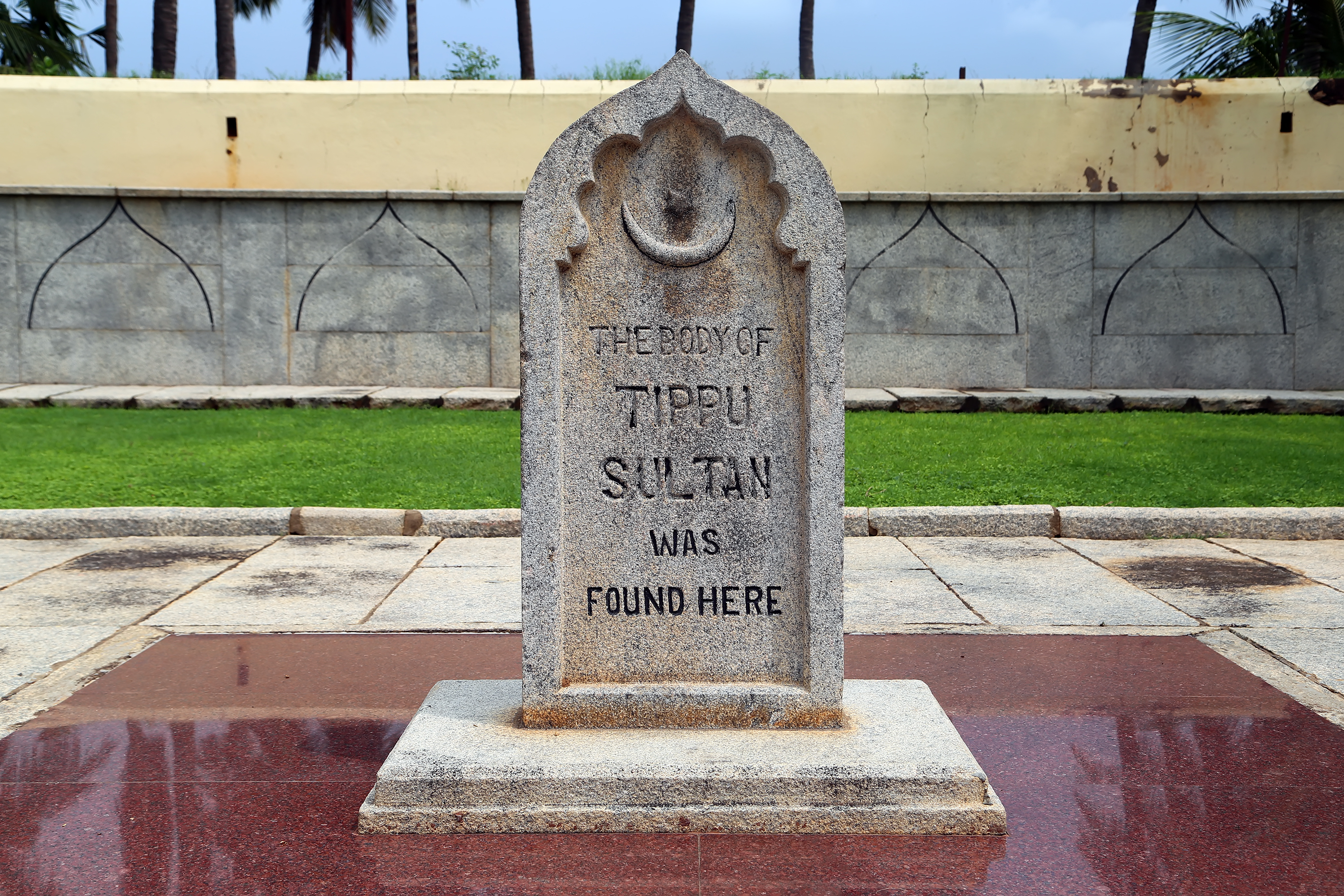 Stone tablet at the death place of Tipu Sultan the ruler of the Kingdom of Mysore